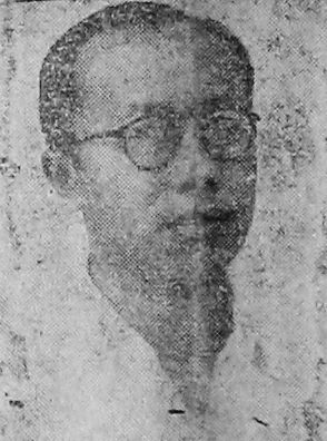 Portrait of Djuanda